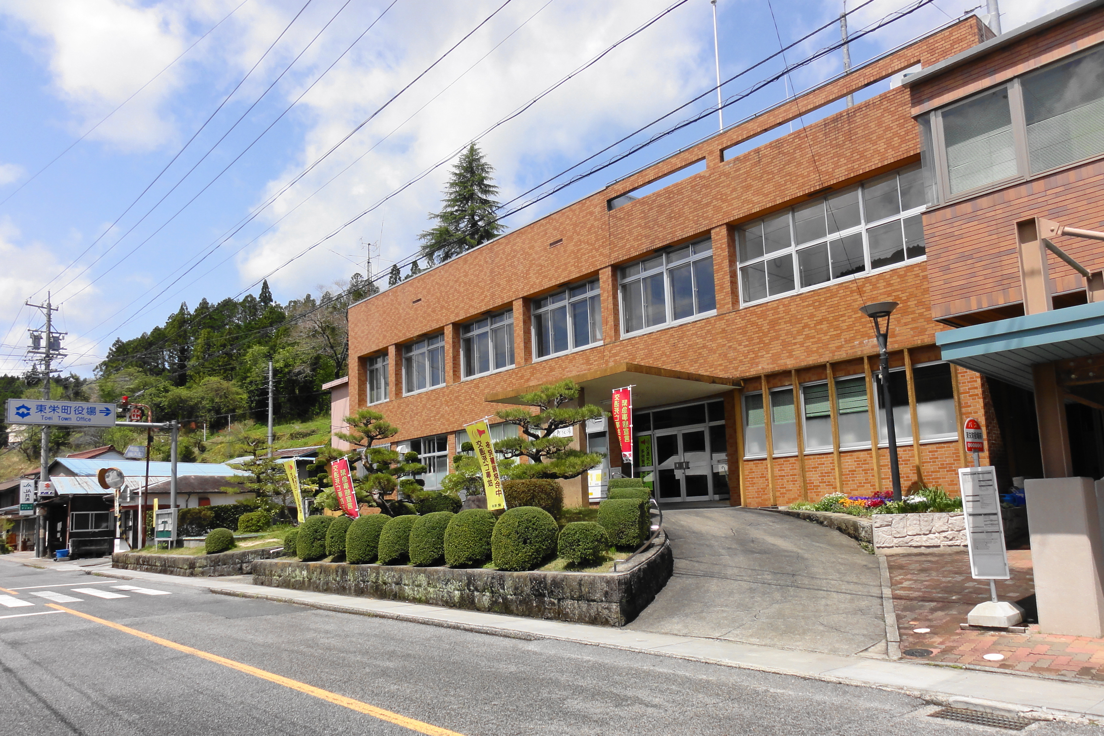 Tōei town office,Aichi prefecture,Japan